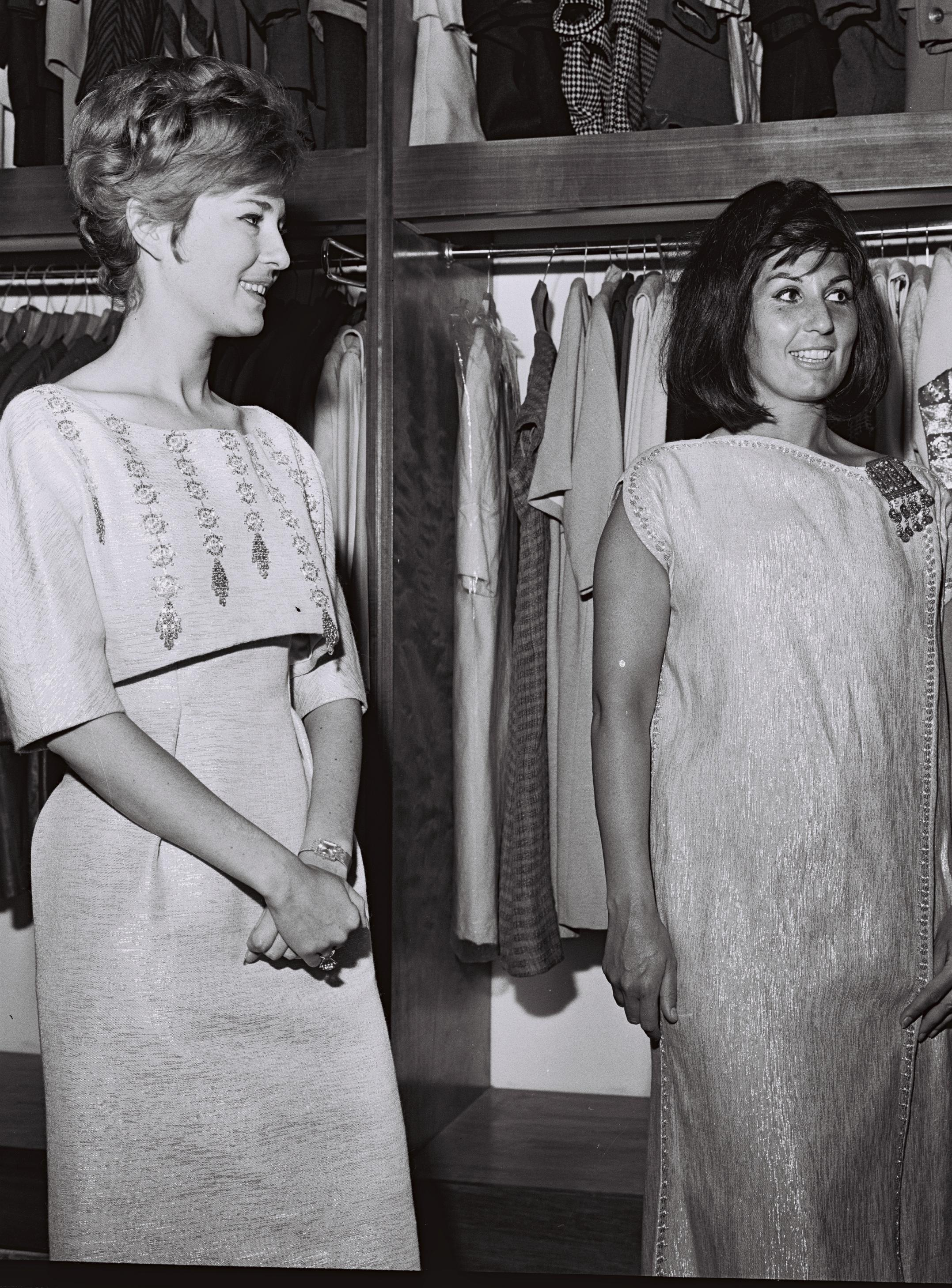 British TV star Alma Cogan (right) with Israeli actress Ilana Rovina, at the Maskit Shop in Tel Aviv.